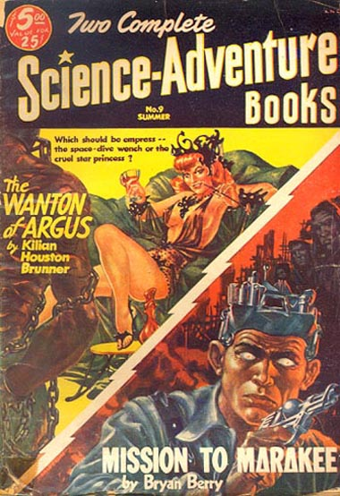 Cover, Two Complete Science Adventure Books, Summer 1953